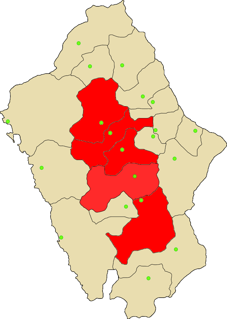 callejon de Huaylas